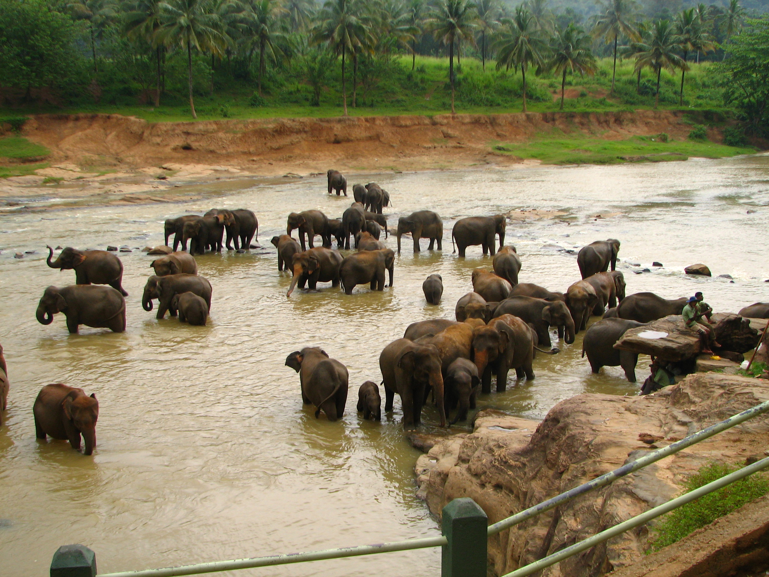 The beautiful elephants at the Elephant Orphanage near Kandy for their daily swim and drinking session. I am not a particular wildlife person, but I could watch these creatures all day.